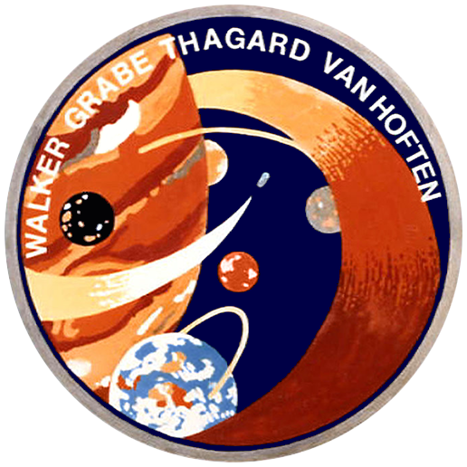 STS-61-G patch